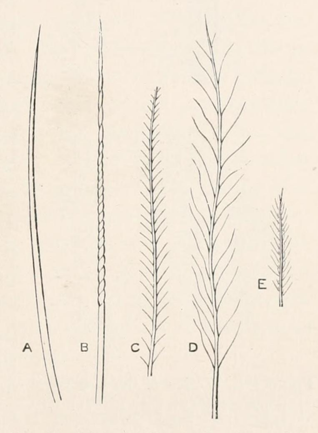 Hairs of Bees : A, simple hair from abdomen of Osmia; B, spiral hair from abdomen of Megachile; C, Plumose hair from thorax of Megachile; D, from thorax of Andrena dorsata; E, from thorax of Prosopis